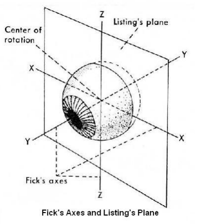 Eye axes